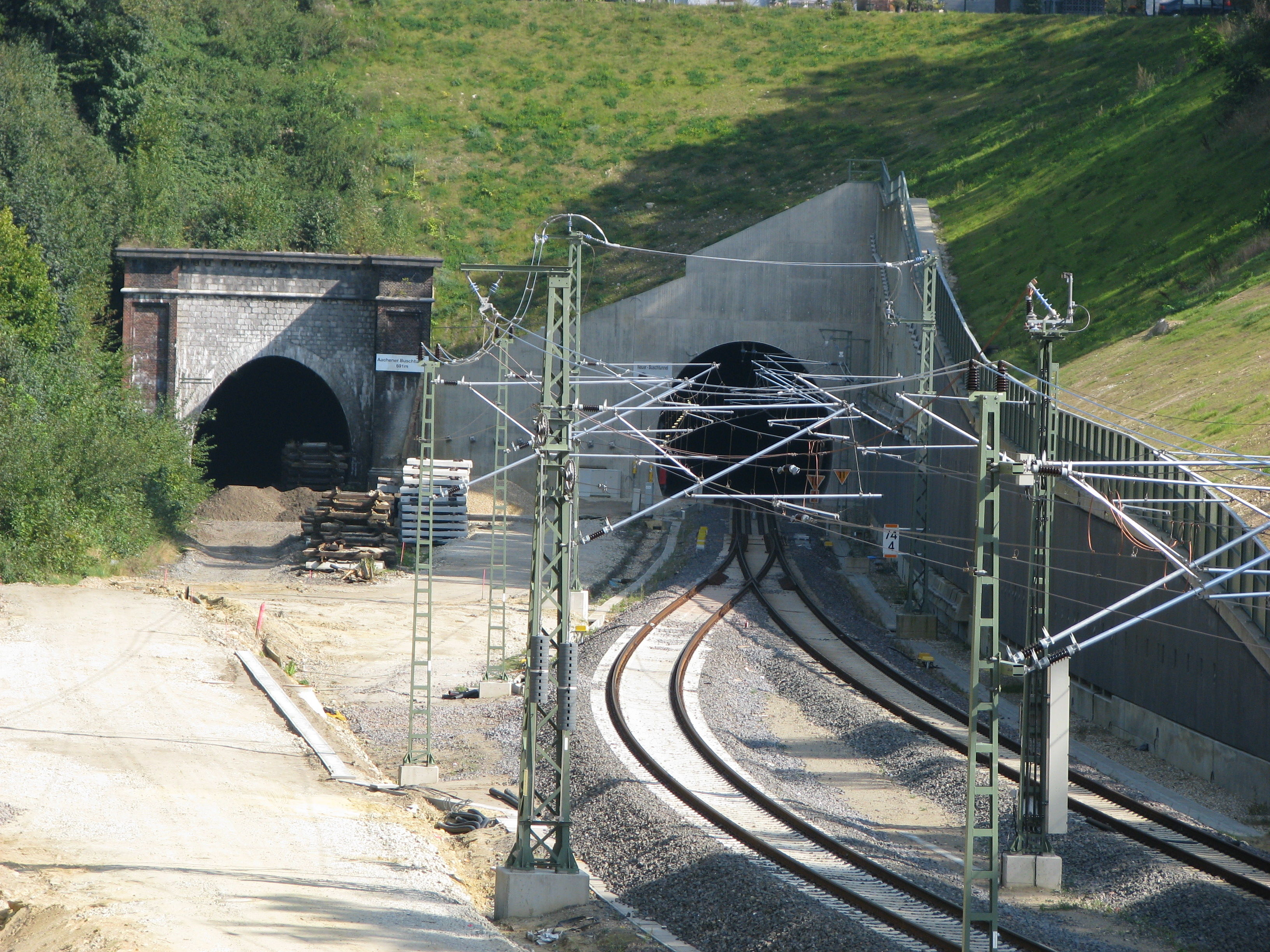 West portal of the old and new Buschtunnel in Aachen